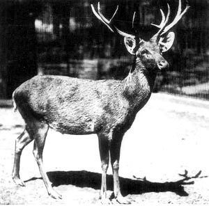 Photo of Cervus schomburgki, Schomburgk's Deer, from West Berlin Zoo though Lothar Schlawe (1911).